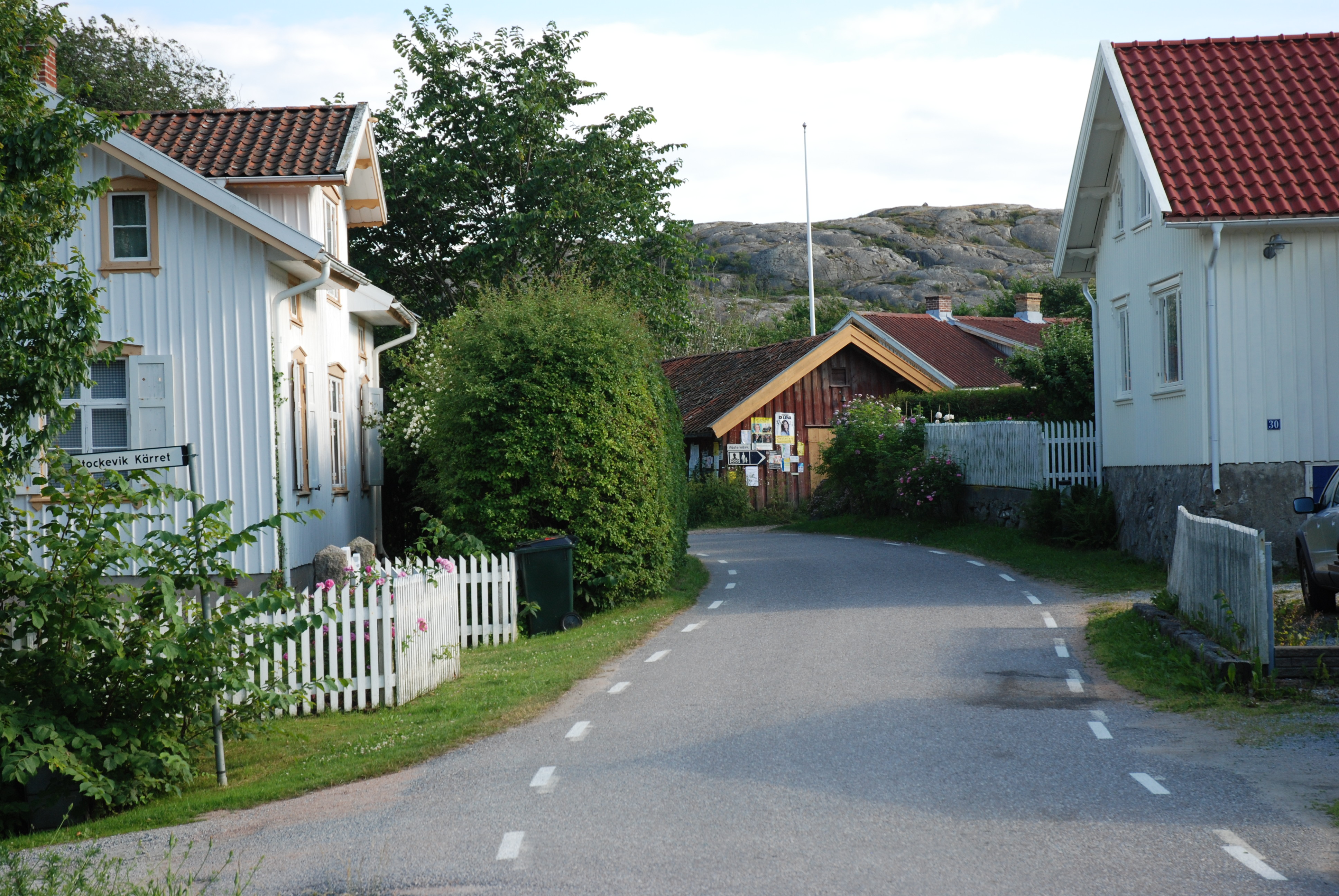 Stockevik village, Tjörn, Sweden- Old main road of the island of Tjörn.